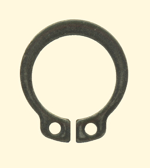 External snap ring (circlip)